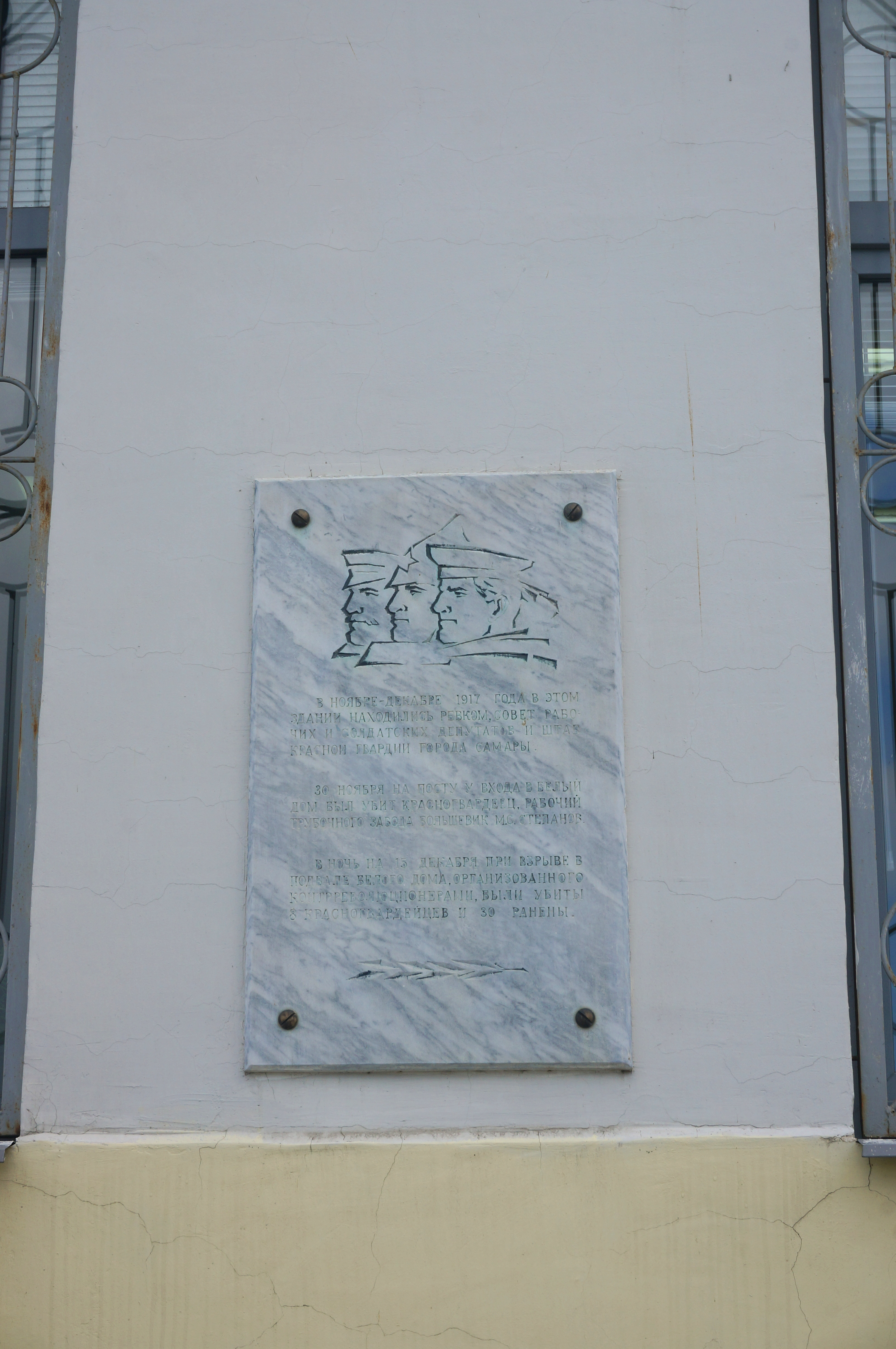 Памятная табличка на здании института культуры, о том, что в 1917 года в здании при теракте погибли красноармейцы